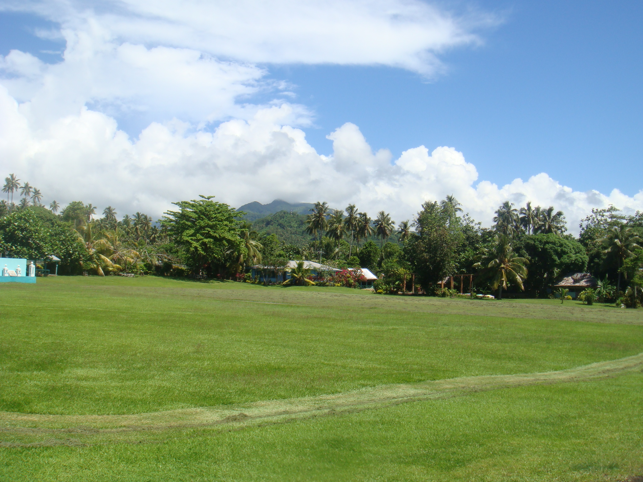 The grounds of Piula Theological College, centre of the Methodist church, in Samoa, 2010. Gagana Samoa: Le malae o Piula i Upolu, Samoa.